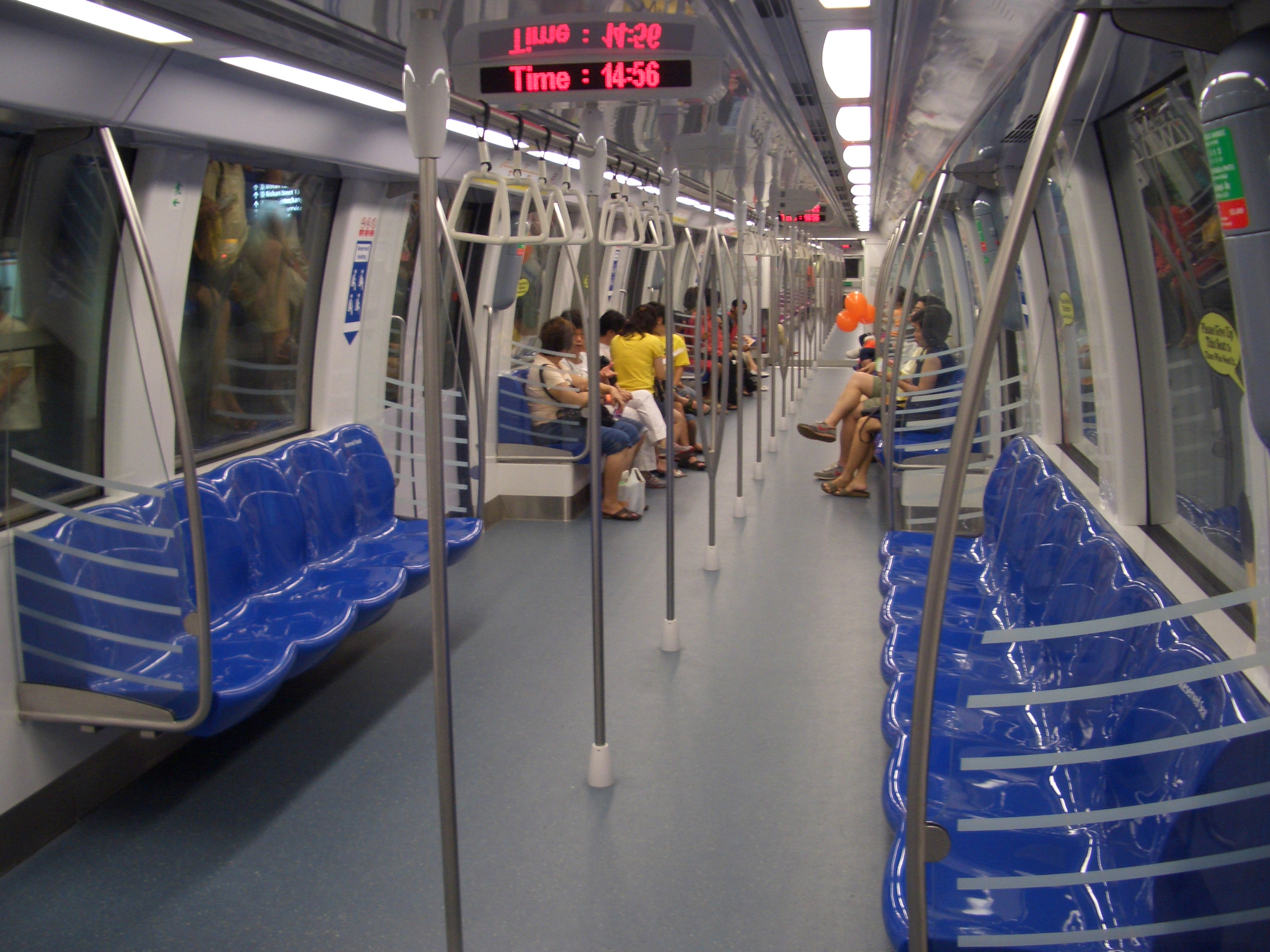 Interior of CCL MRT Alstom Metropolis C830 train middle compartment.